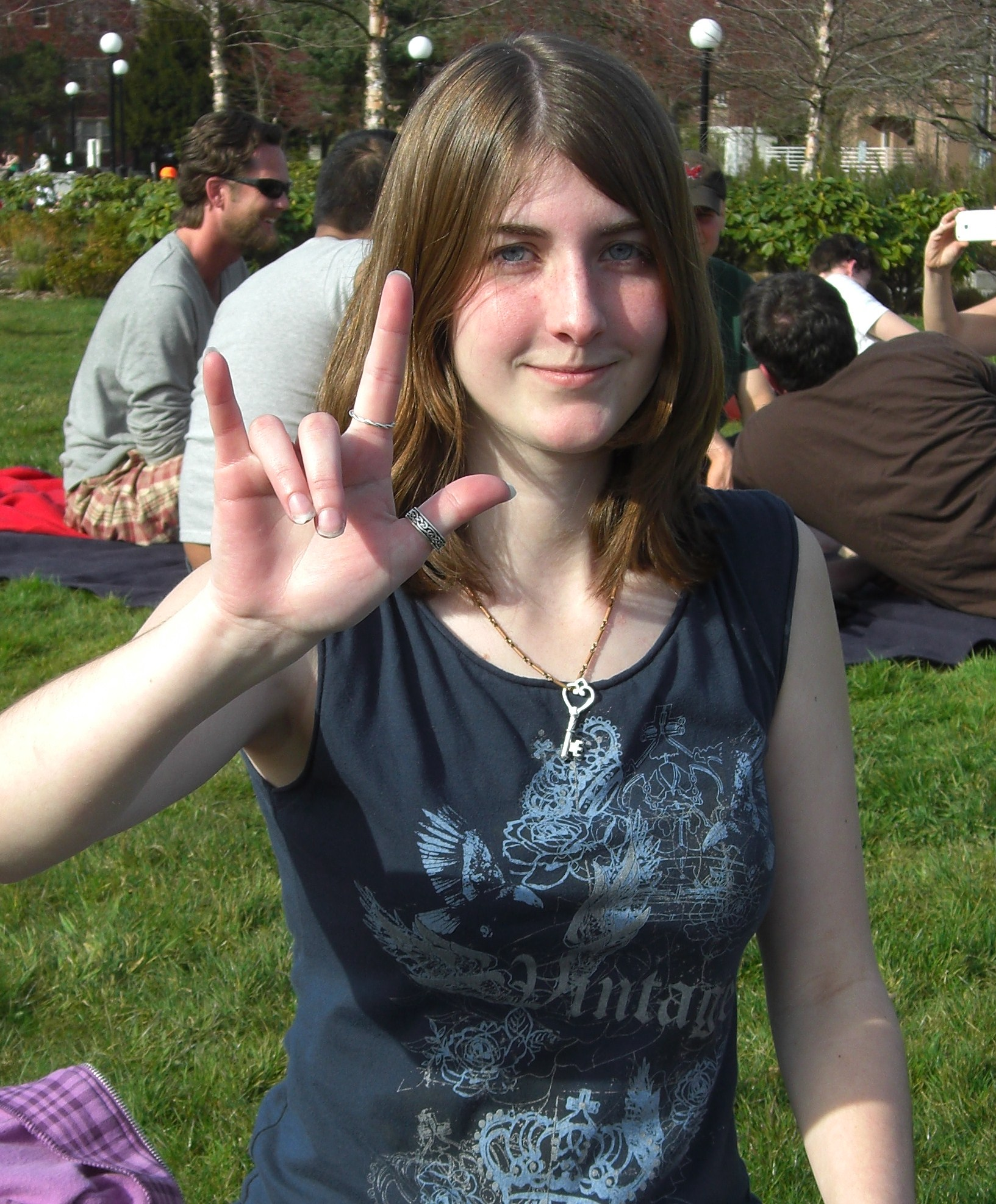 ASL sign I-LOVE-YOU (ILY@Side-PalmForward)